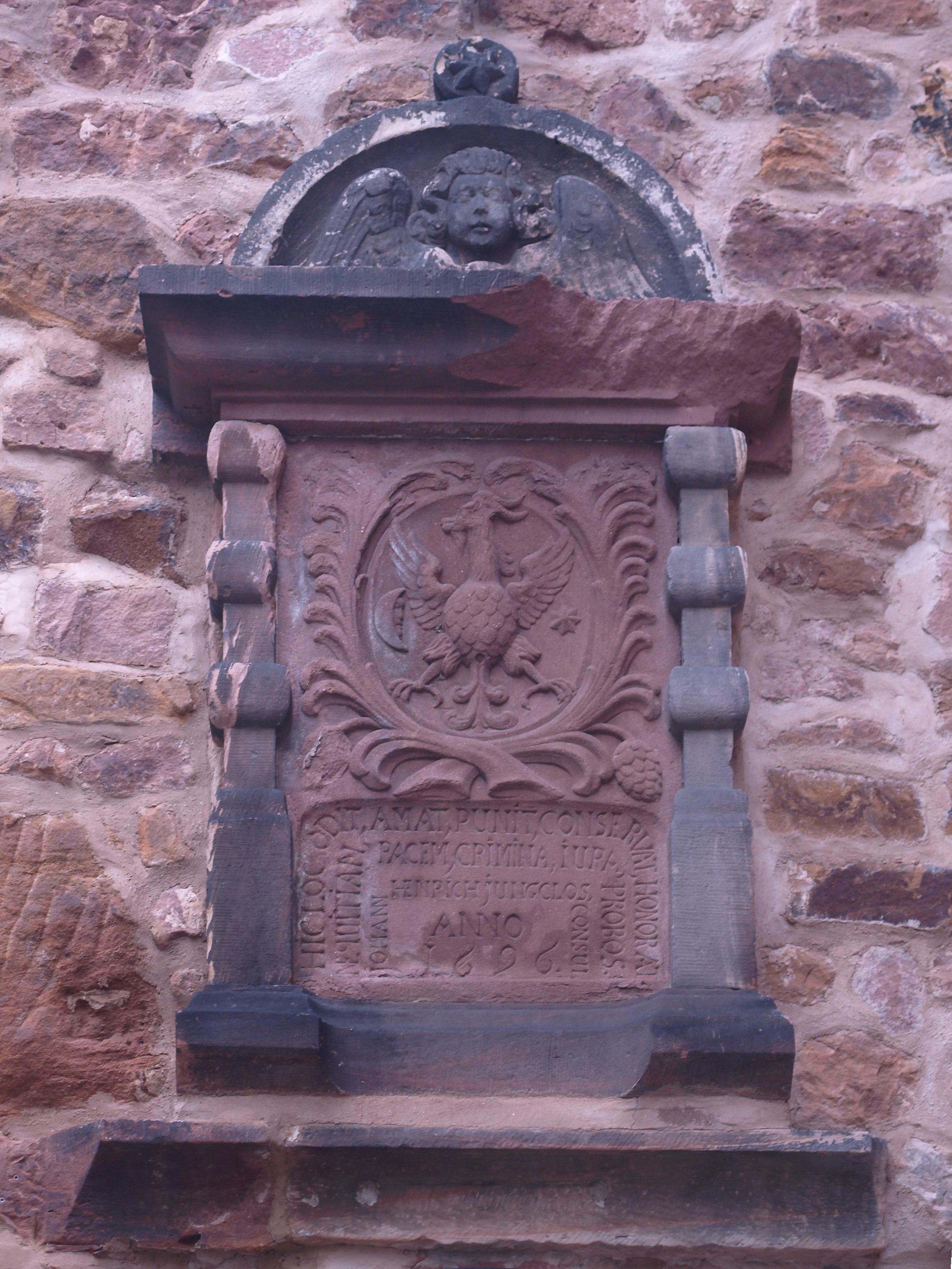 Coat of arms of the counts of Ziegenhain and today's city arms of Schwalmstadt, at the town hall in Treysa